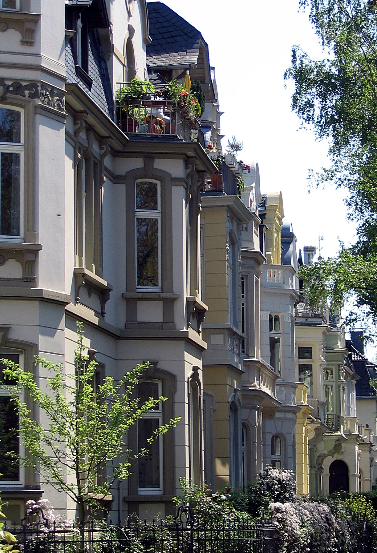 Gründerzeit-Houses, Bonn-Weststadt